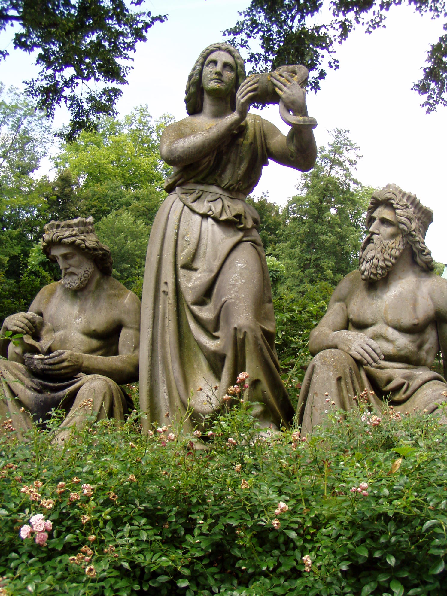 „Hygeia with Rákóczi and Pandur“ (1857), Sculpture by Michael Arnold (1824-1877), Location: Lindesmühlpromenade in Bad Kissingen, Bavaria, Germany